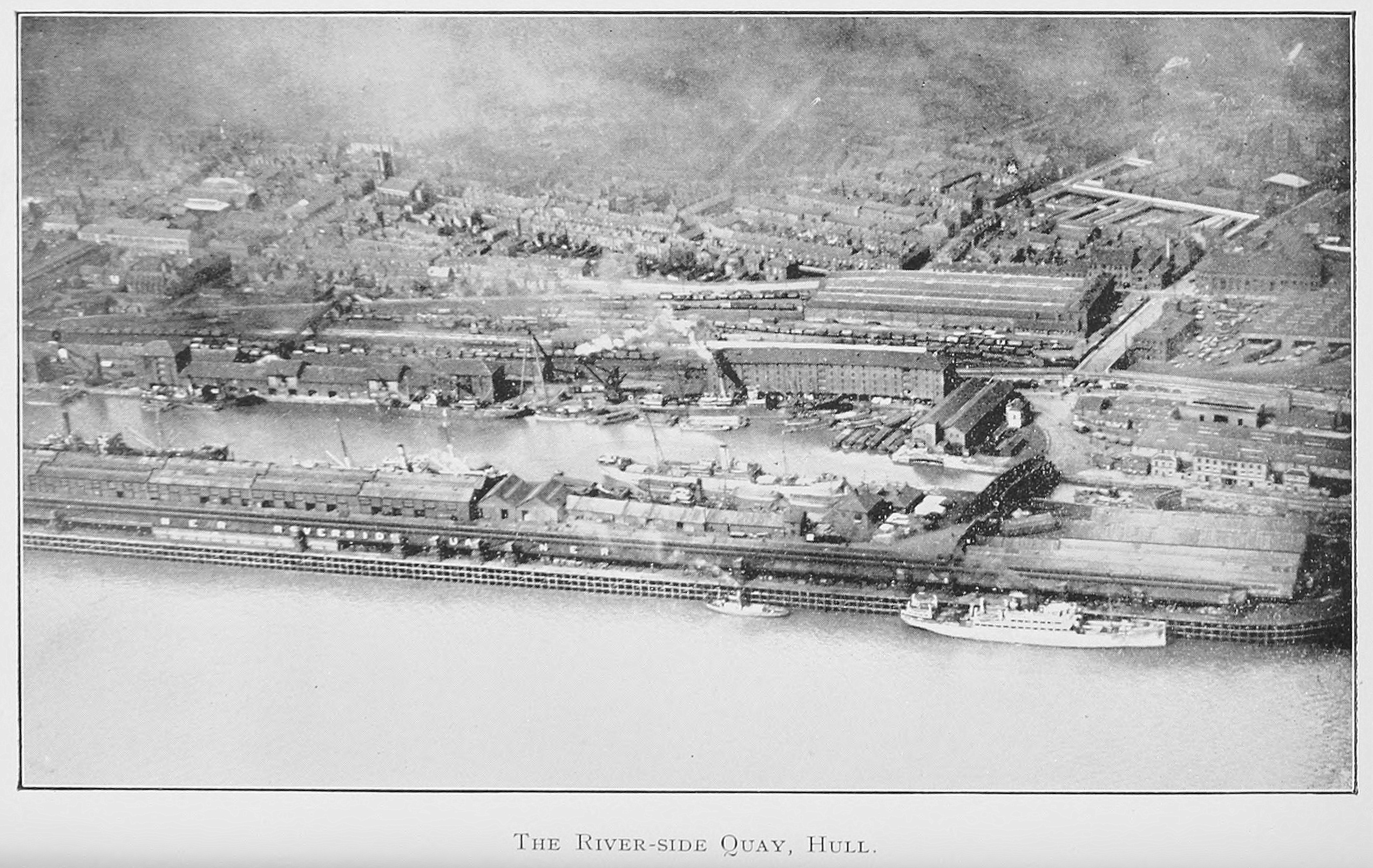 Riverside quay on Humber bank, fronting Albert and William Wright docks